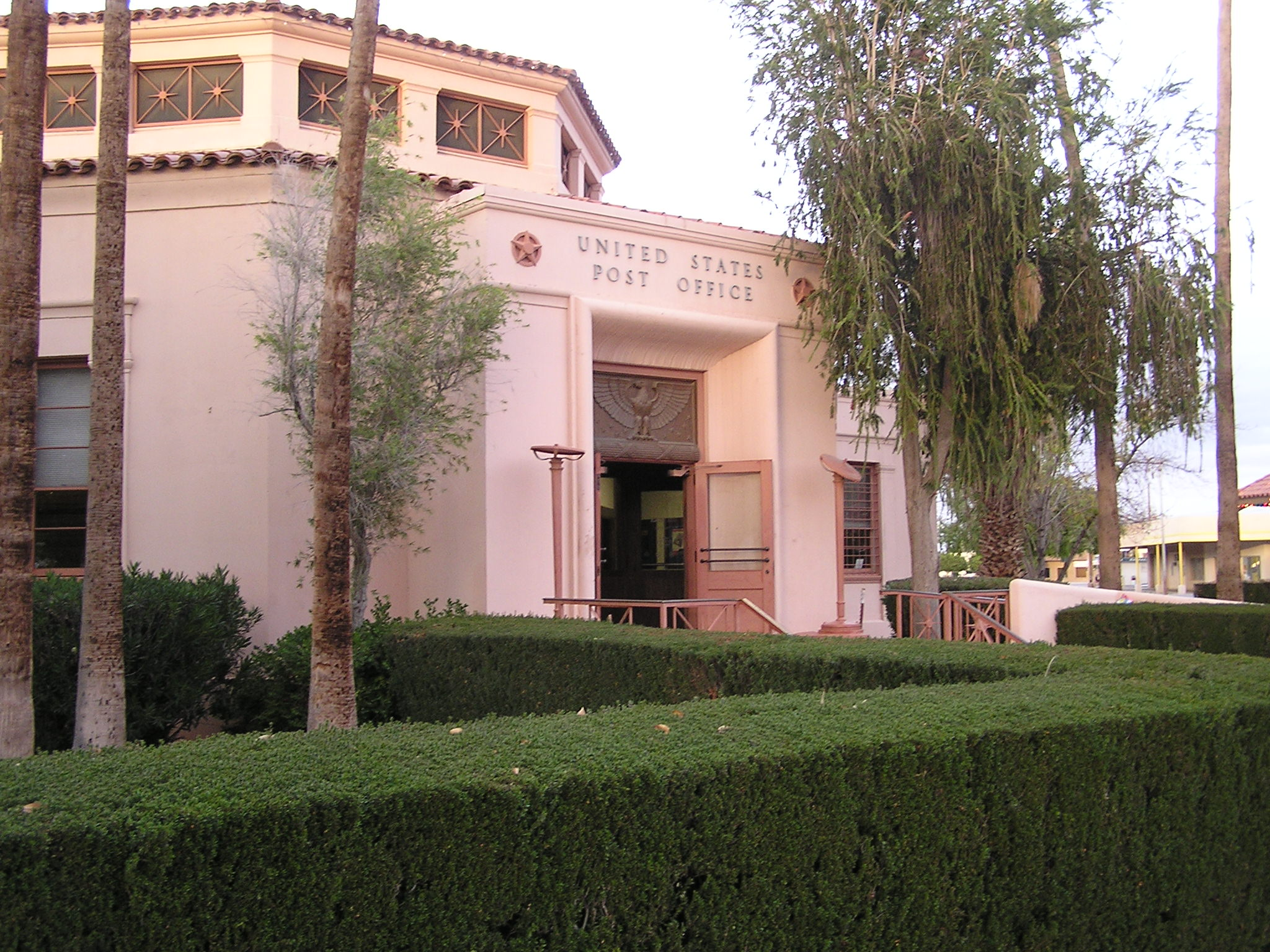 Octagonal Post Office building in Brawley. Photo by Eric Polk - 2006